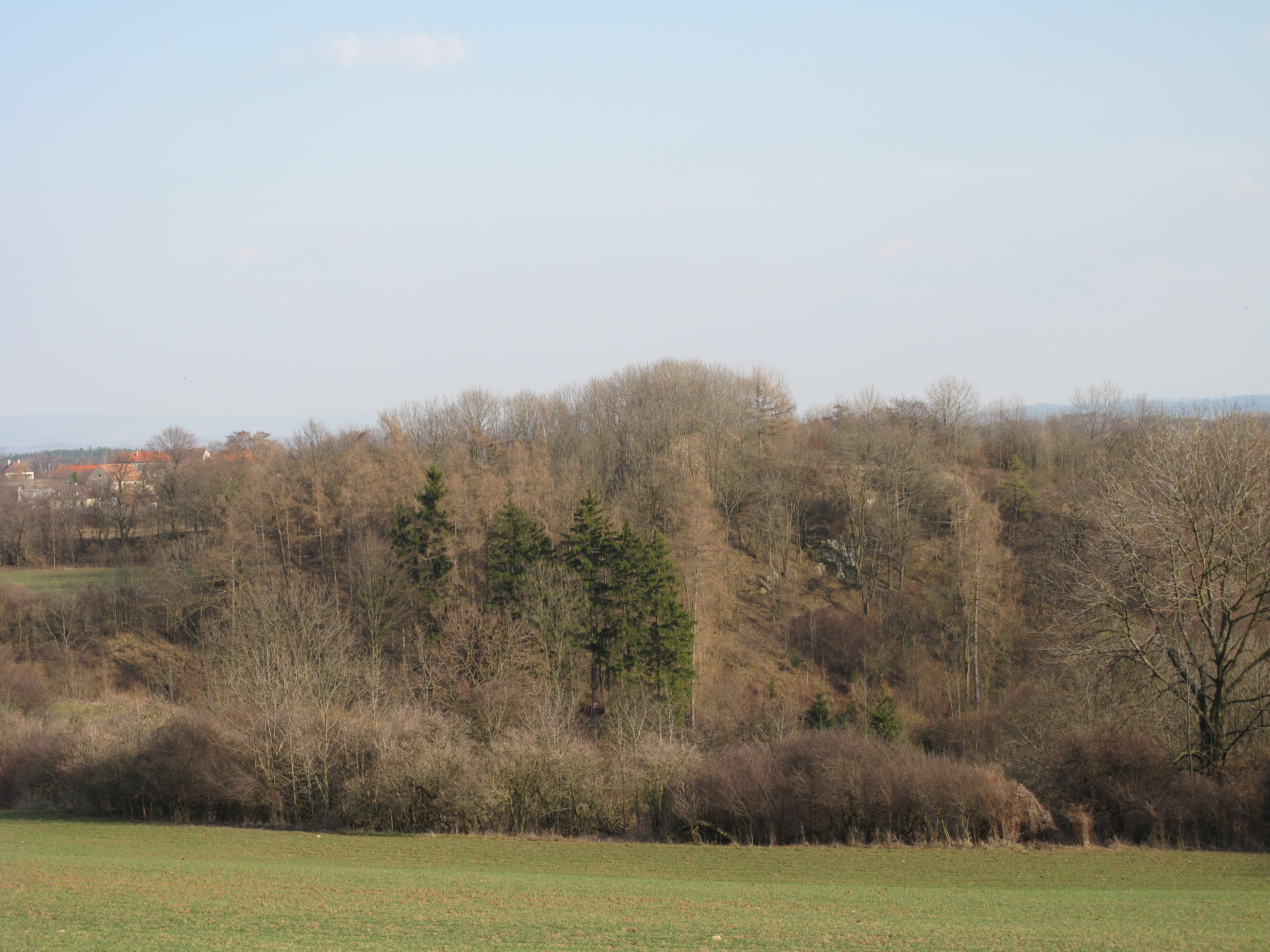 Cimburk as seen form the north. Cimburk used to be a mediaeval fortified settlement. Kutná Hora District, Czech Republic.